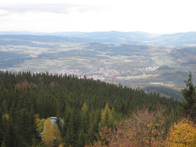 This is an image facing south from the peek of mount Kleť in the Czech Republic.